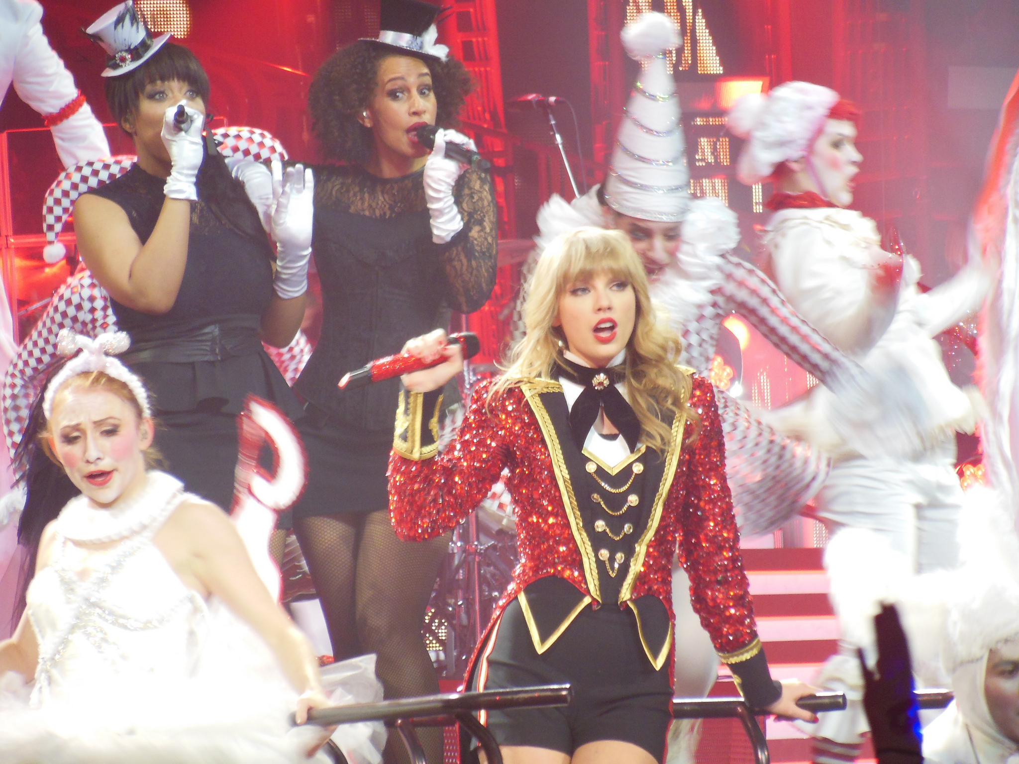 Taylor Swift during the Red Tour, March 2013, performing We Are Never Ever Getting Back Together